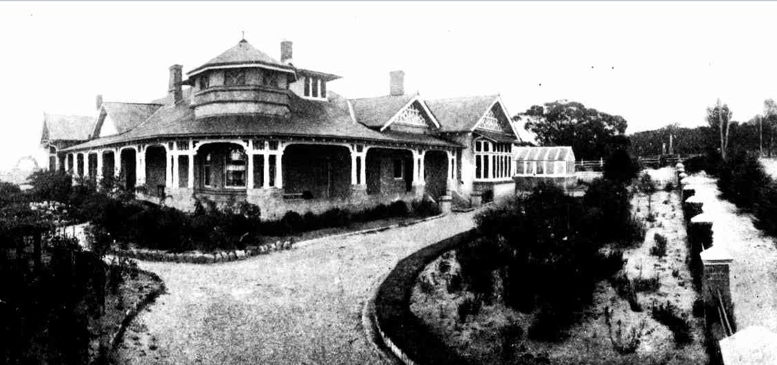 The house built by Charles Henry Hoskins in 1914 at 338 Great Western Highway, Bullaburra, N.S.W., Australia.